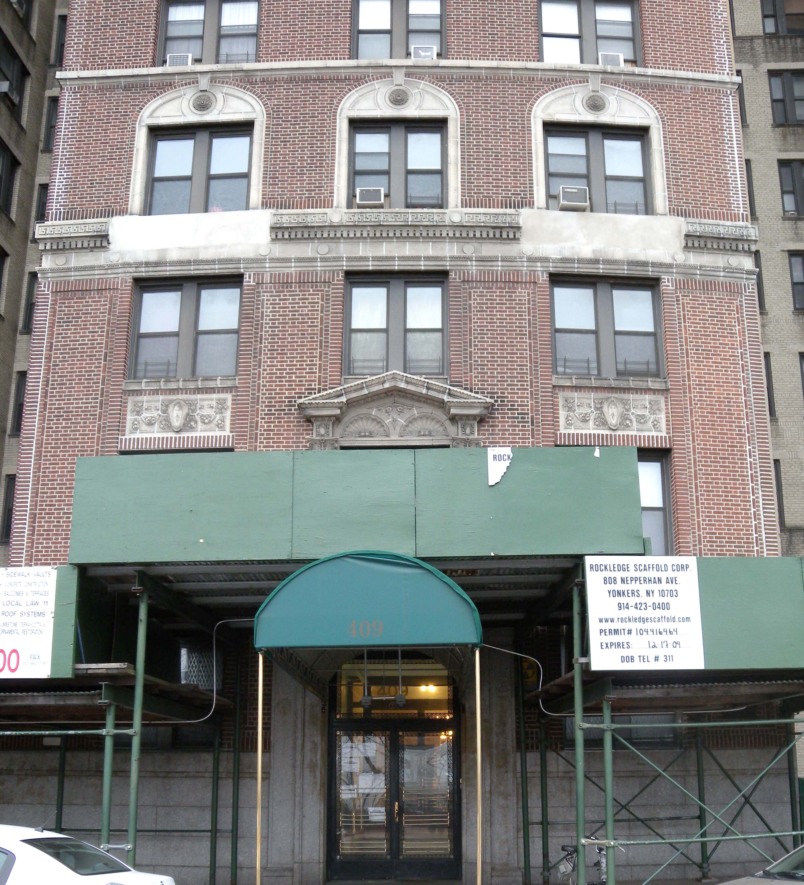 Looking west on a cloudy afternoon across Edgecomb Avenue at apartment house at 409, a NYCLPC Landmark designated in 1993, map 18.